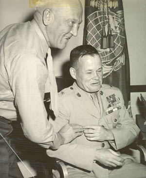 From the Graves B. Erskine Collection (COLL/3065) at the Marine Corps Archives and Special Collections OFFICIAL USMC PHOTOGRAPH